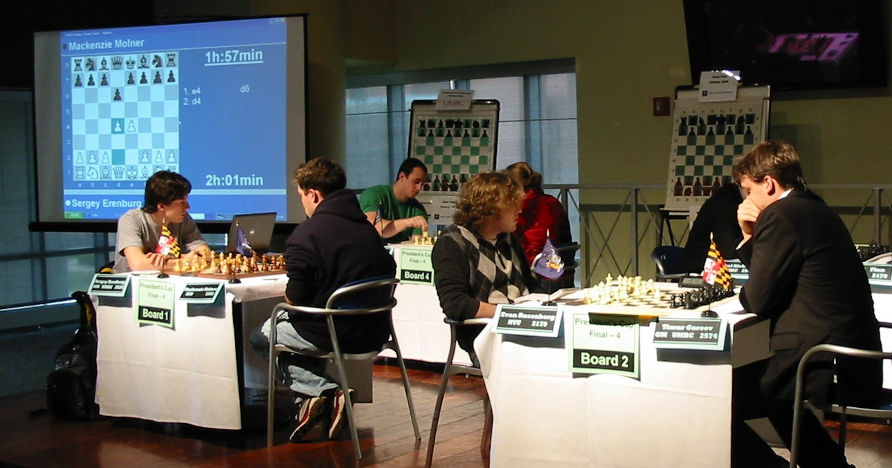 UMBC vs. NYU at 2008 Final Four.jpg Photo by Alan Sherman